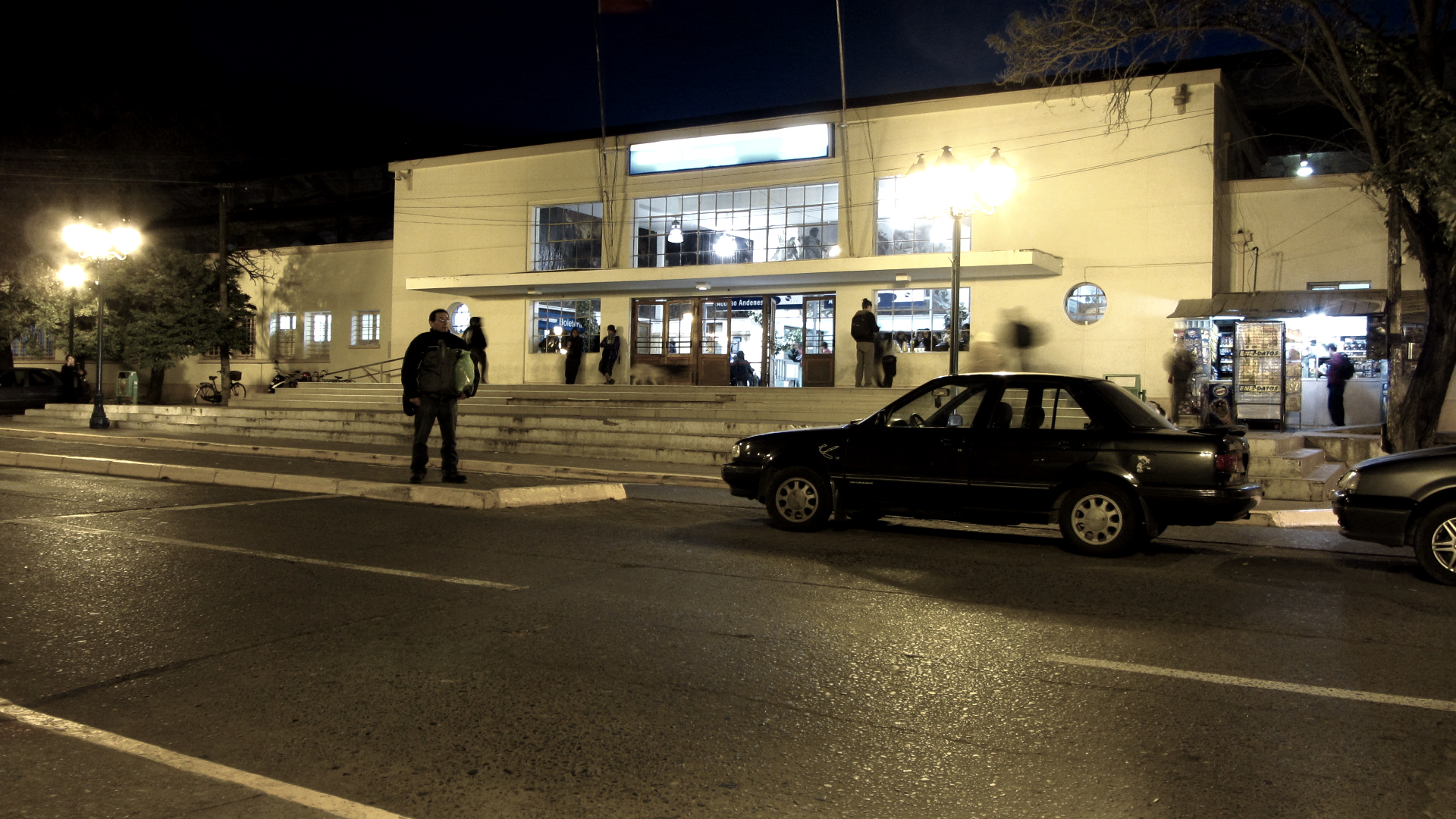 Facade of Rancagua railway station, take on June, 2012.